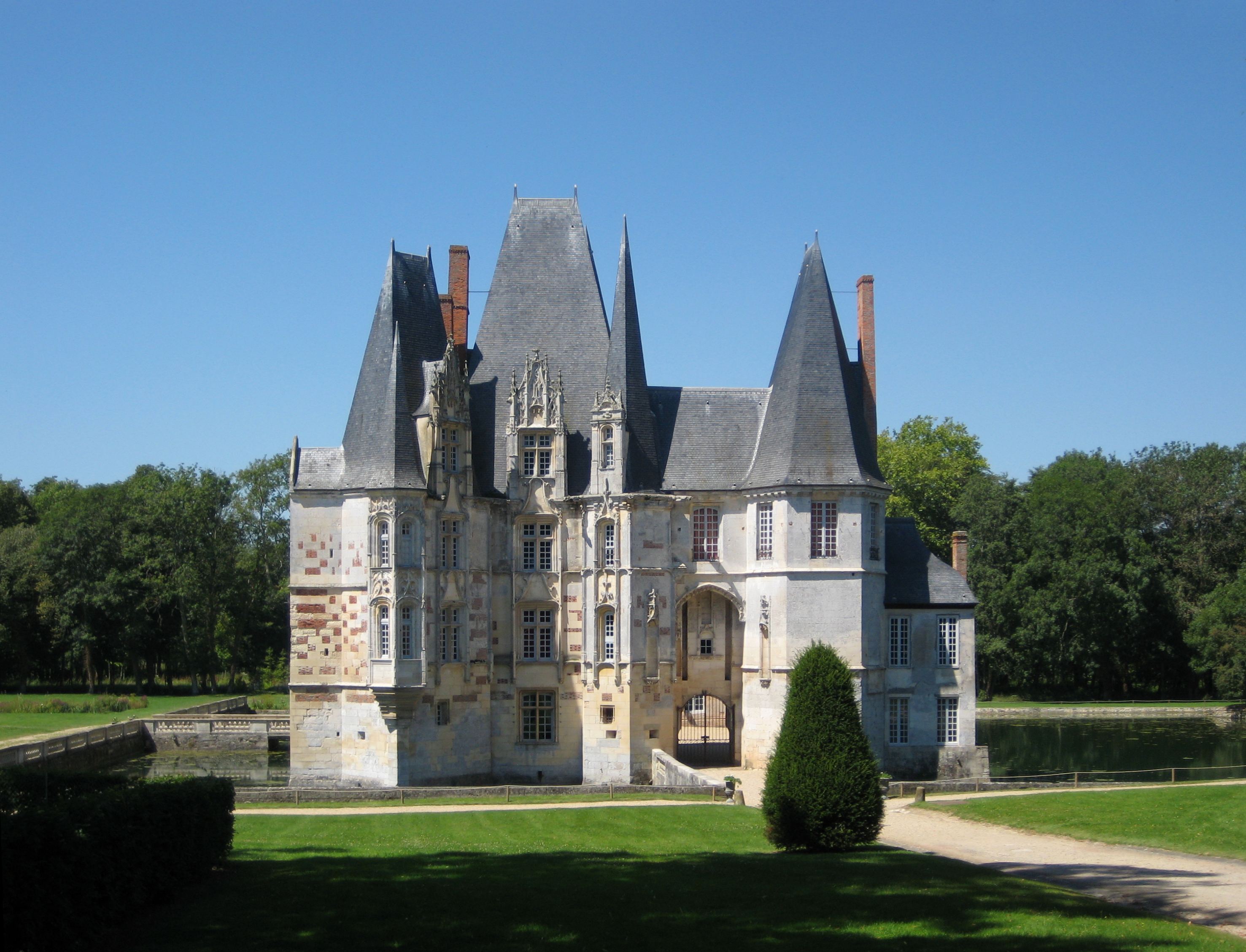 The Château d'O in Mortrée, France, south-eastern aspect